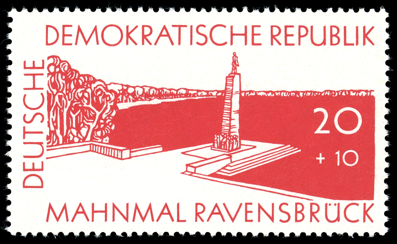 Ausgabepreis: Pfennig First Day of Issue / Erstausgabetag: Auflage: Entwurf: Druckverfahren: Michel-Katalog-Nr: Ländercode-MiNr: Licensing This file is most likely NOT in the public domain. It has been marked for review, and will be deleted in due course if the review does not find it to be in the public domain. This file was previously considered to be in the public domain as a German stamp; it is possible that it is in the public domain for other reasons, in which case a new rationale will be applied as part of the review process. See below for the previous rationale. Previous public domain rationale, no longer applicable This stamp is in the public domain in Germany because it was released by the postal administration of the German Democratic Republic or the Soviet occupation zone (Deutschen Post der DDR) whose legal successor is the Federal Republic of Germany. Thus it is an official work according to German copyright law (§ 5 Abs. 1 UrhG).